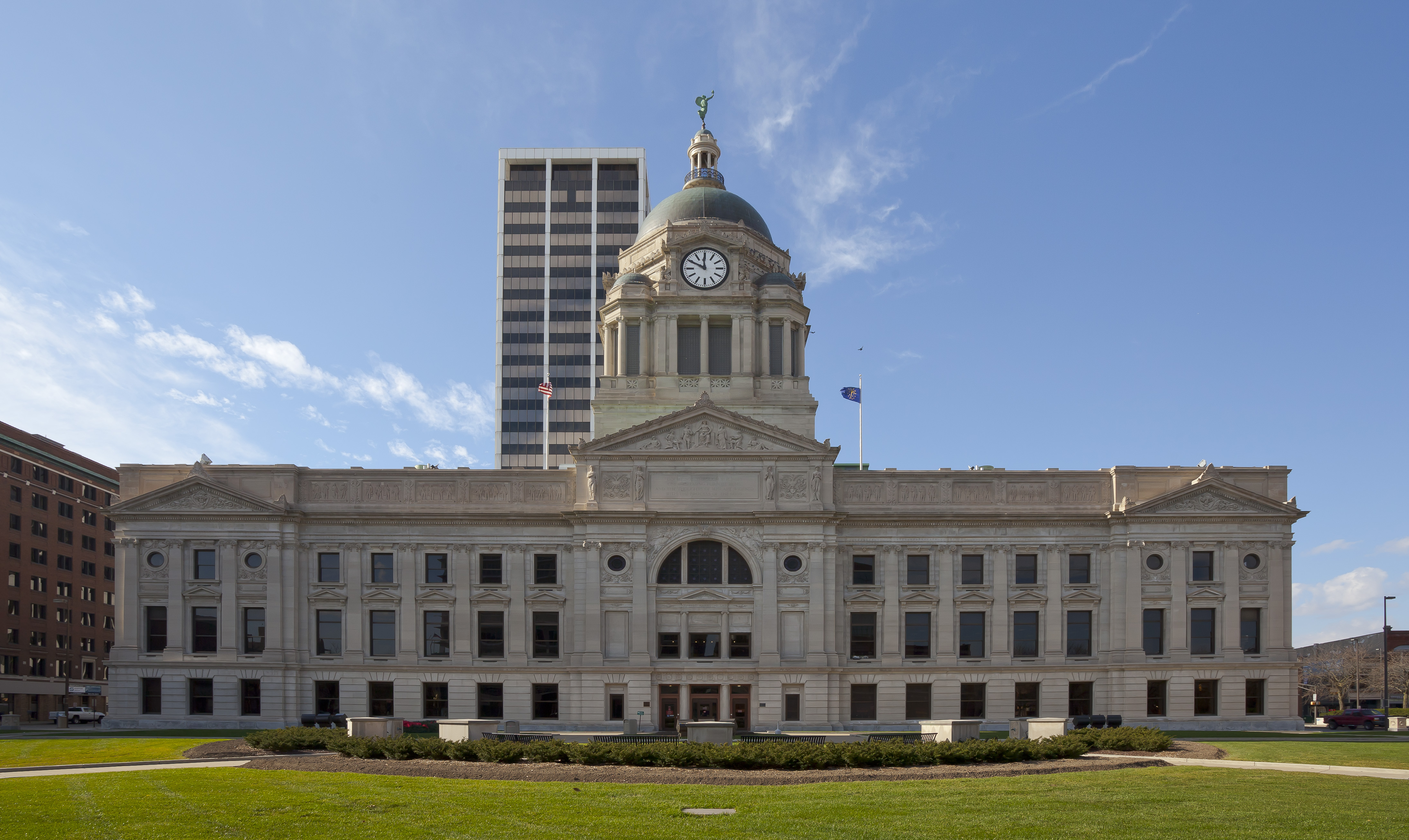 Allen County Courthouse, Fort Wayne, Indiana, USA